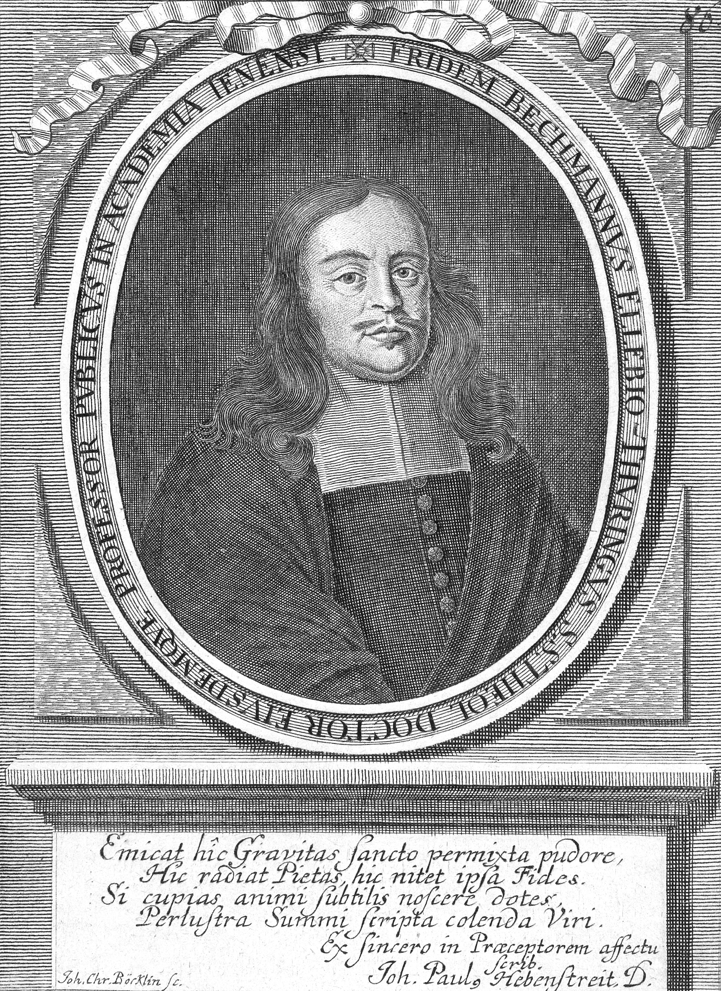 Friedemann Bechmann (1628-1703) German Protestant theologian